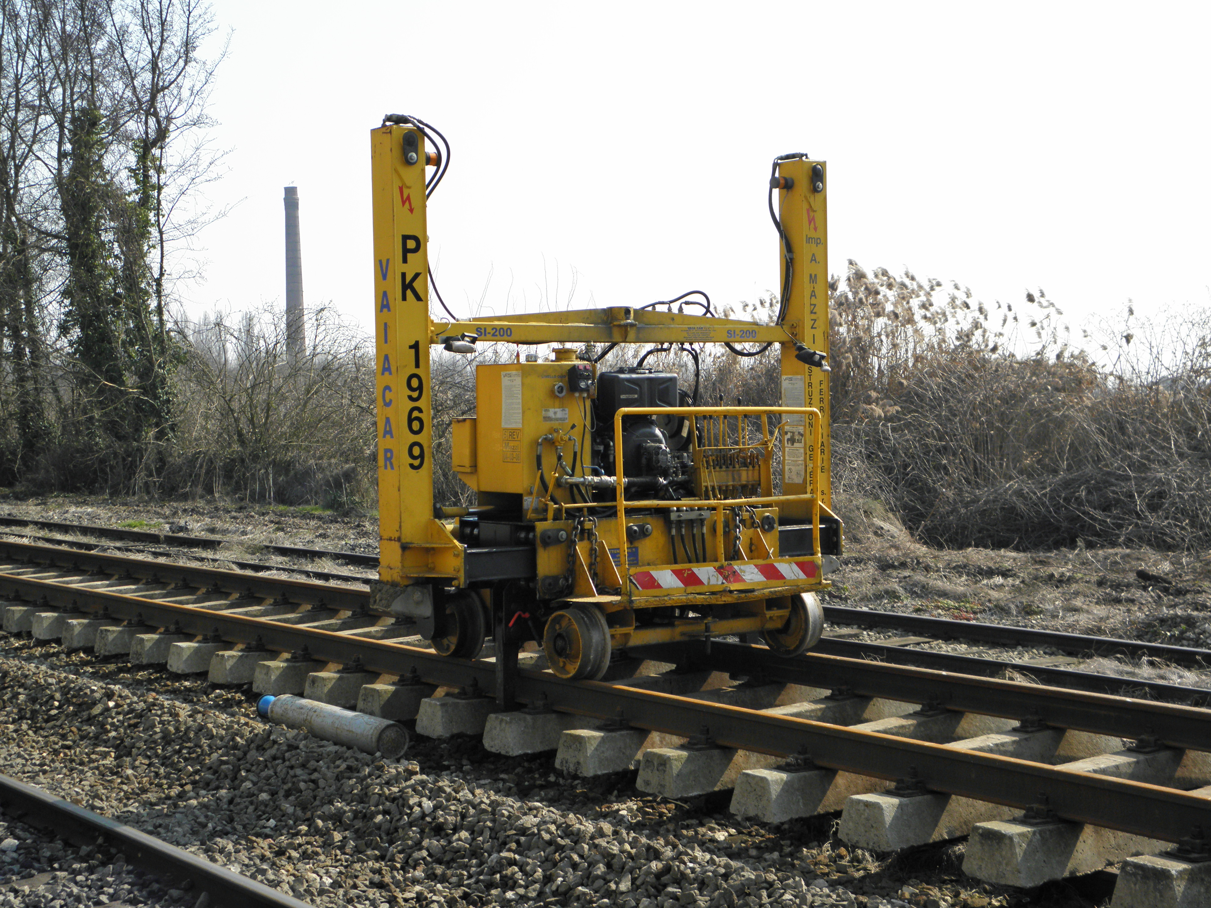 A self-propelled hydraulic lifting machine VAIA CAR SI-200 in Lendinara train station, province of Rovigo.